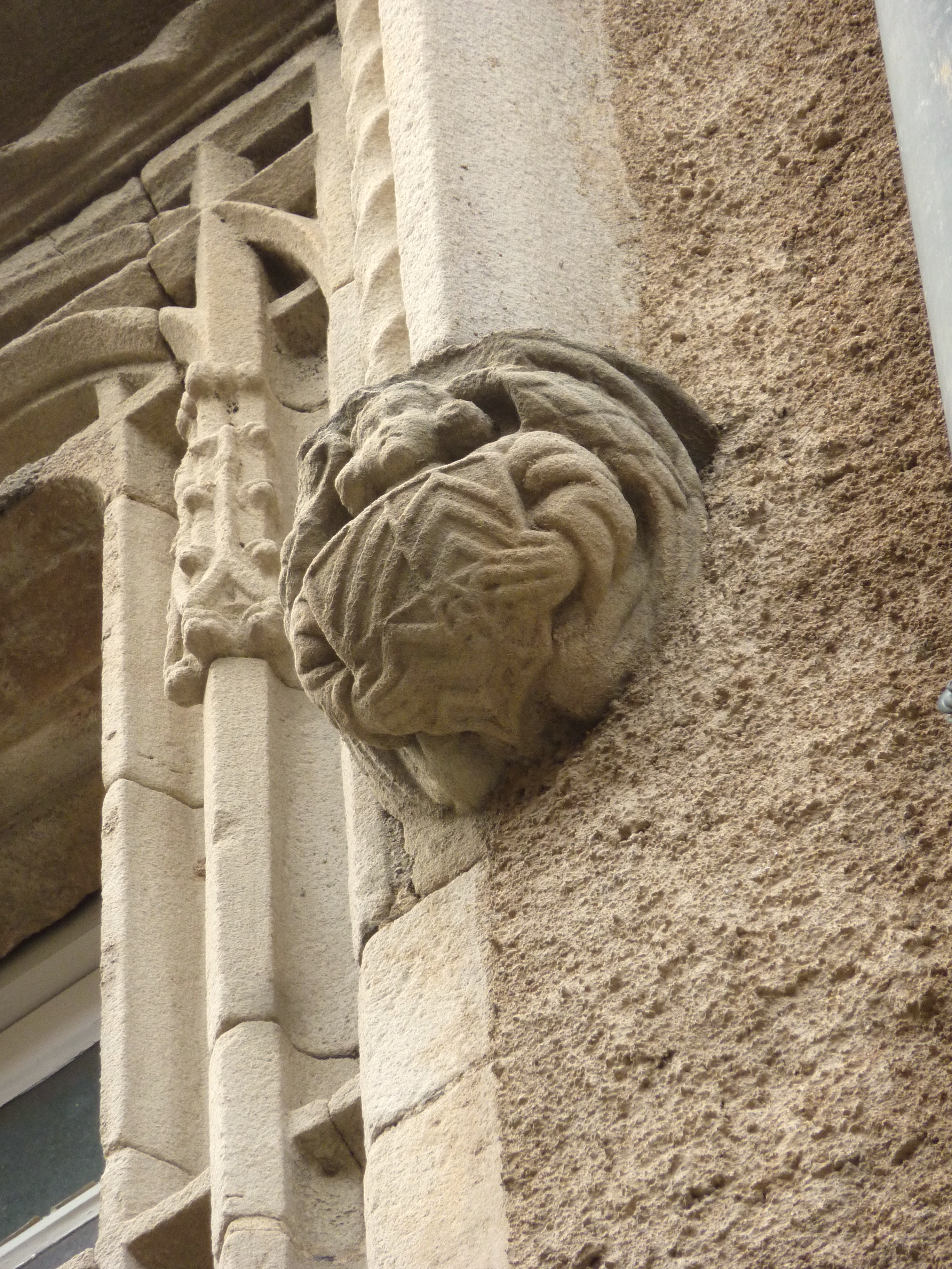 Arms of the Pagès de Pourcarès